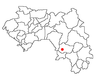 Kissidougou, Guinea Location Map; created with the GIMP. Made by User:Acntx.